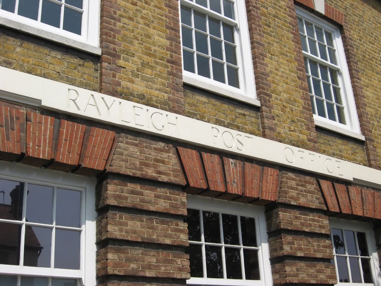 Description:Former Post Office at Rayleigh, Essex. Image credited to:Redvers